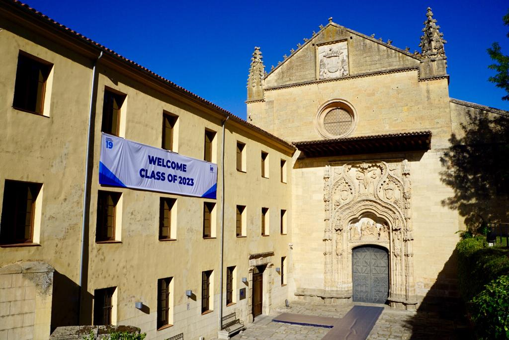 Picture of the Western entrance (21st Century)